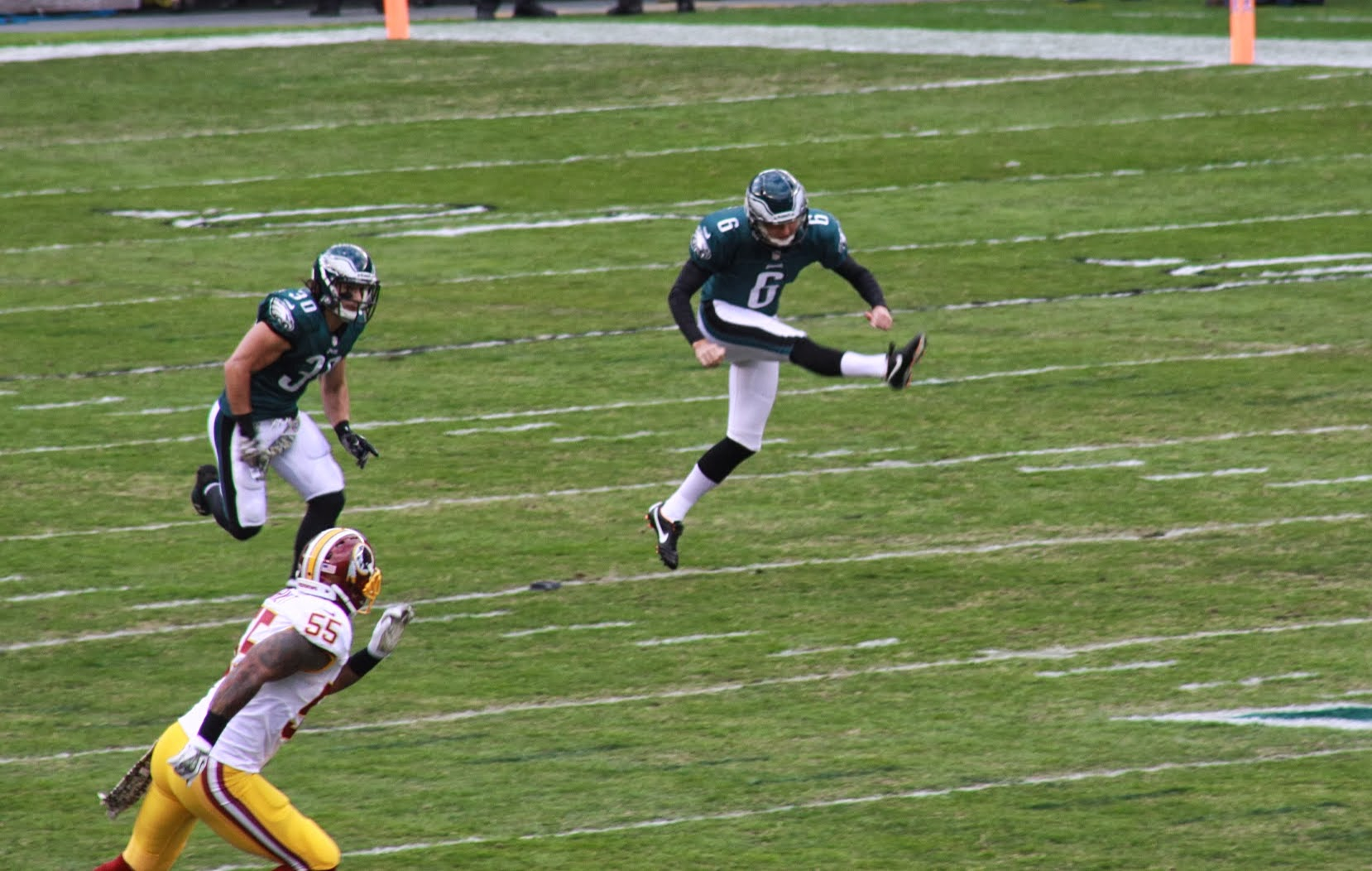 Alex Henery kicks off vs. the Redskins